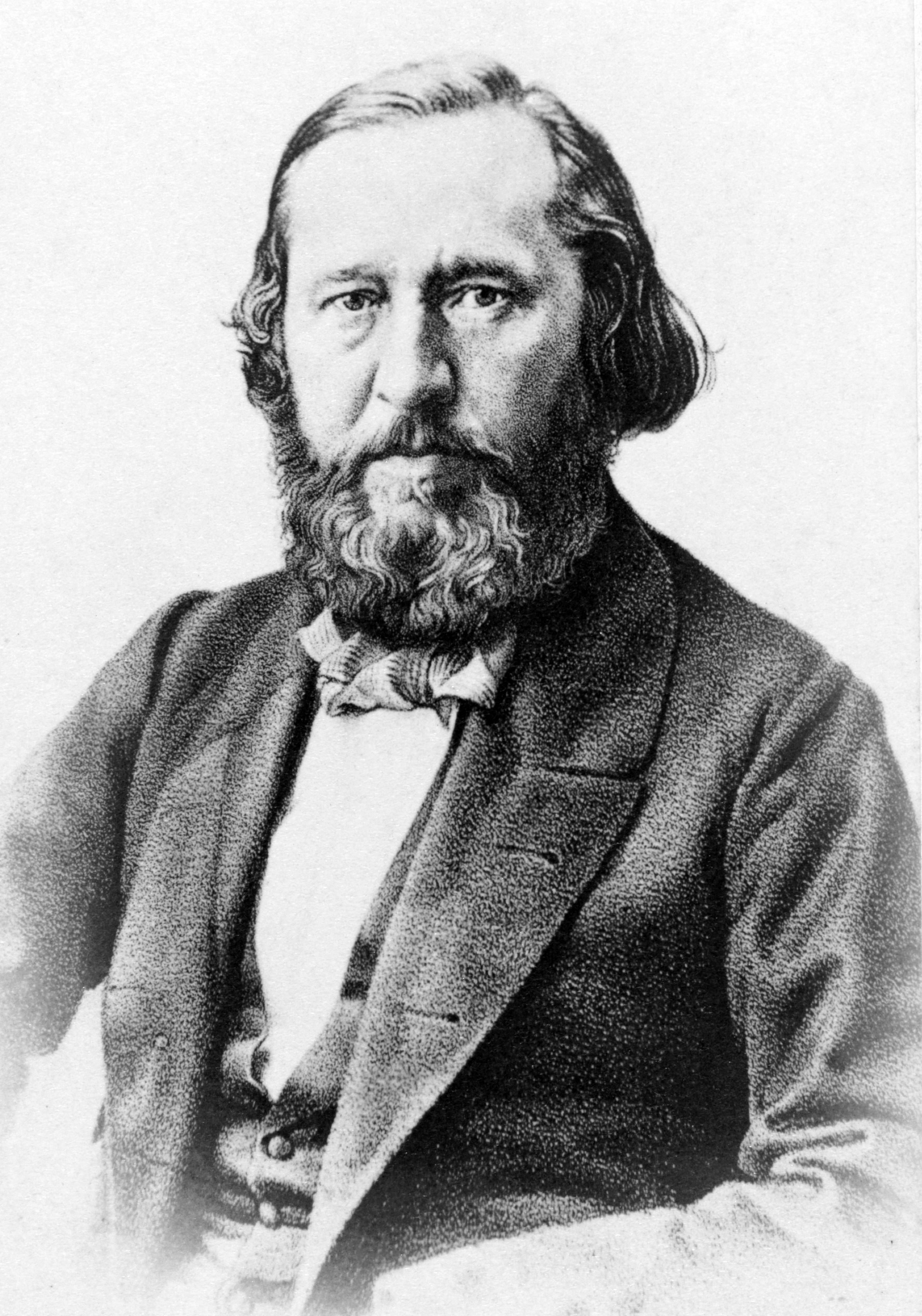 A. Aksakov,Konstantin Sergeyevich Aksakov half-length portrait, facing front